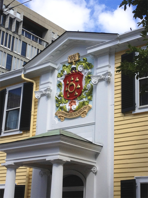 The Signet's baroque plaster cartouche highlights its neo-Federal façade.